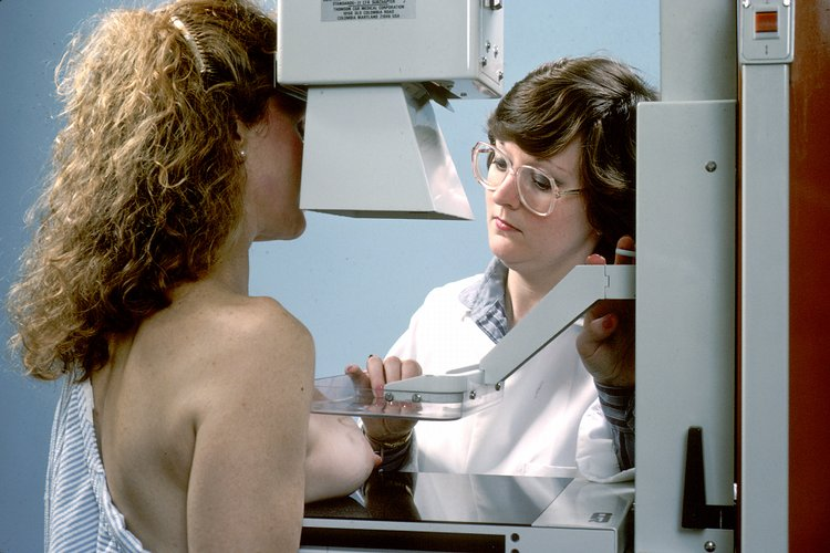 Woman undergoing a mammogram of the right breast